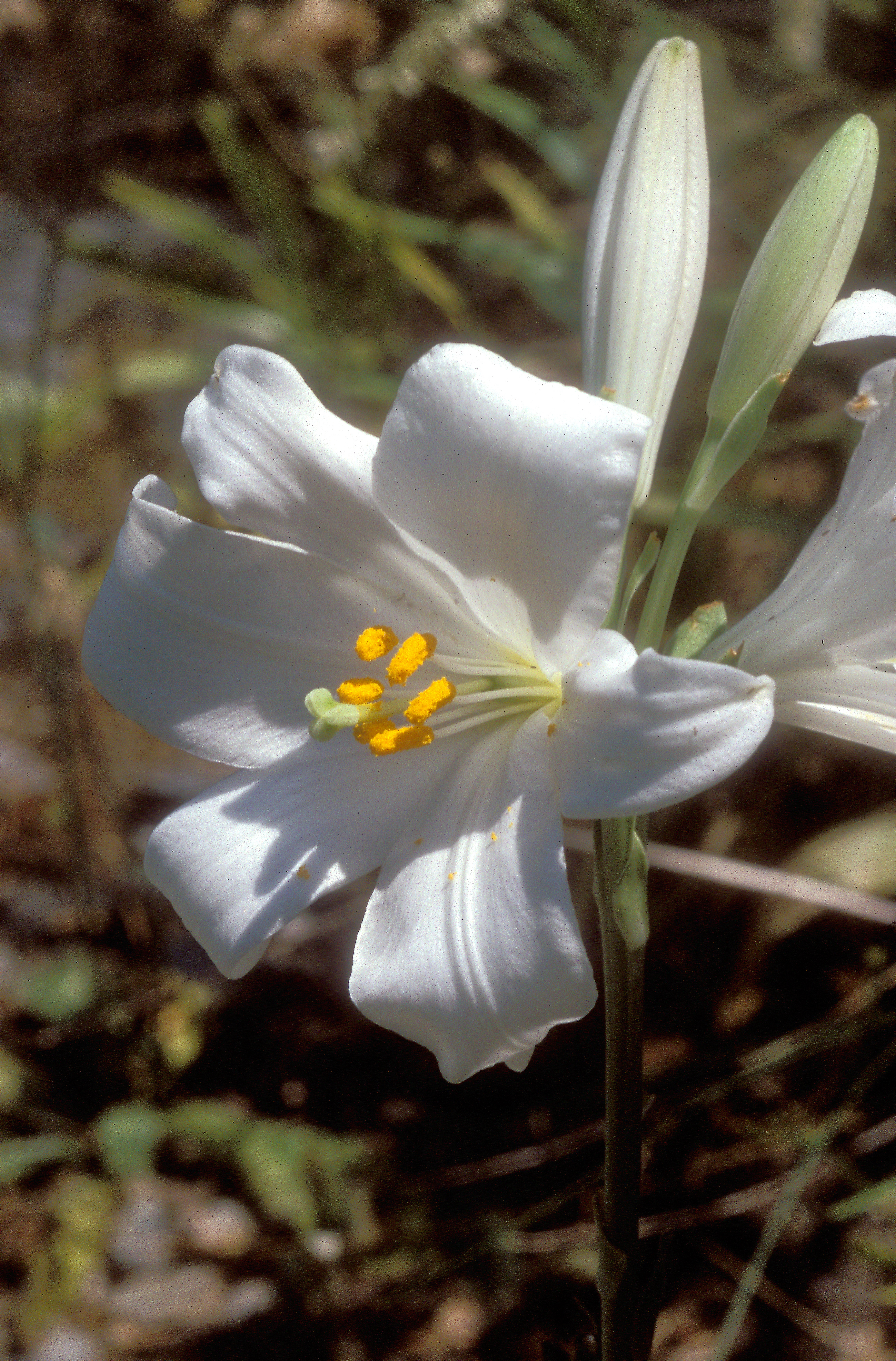 Lilium candidum in habitat at Tembe Valley, Greece